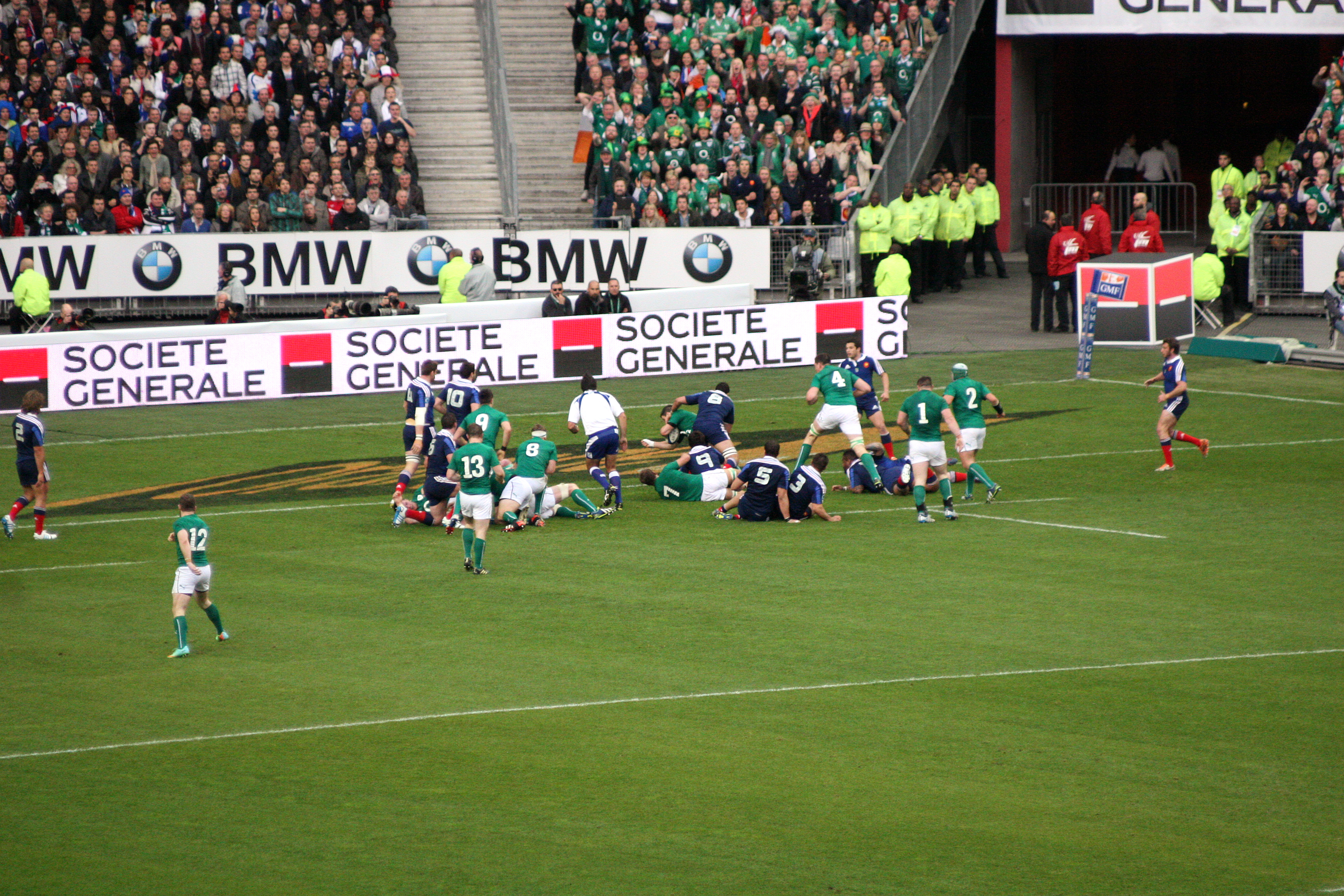 2014 Six Nations Championship, France vs Ireland. First irish try by J. Sexton